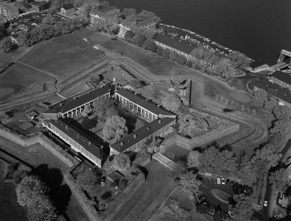 Aerial view of Fort Jay, Governors Island, Fort Columbus, Building No. 214, New York Harbor, New York, New York County, NY, United States.